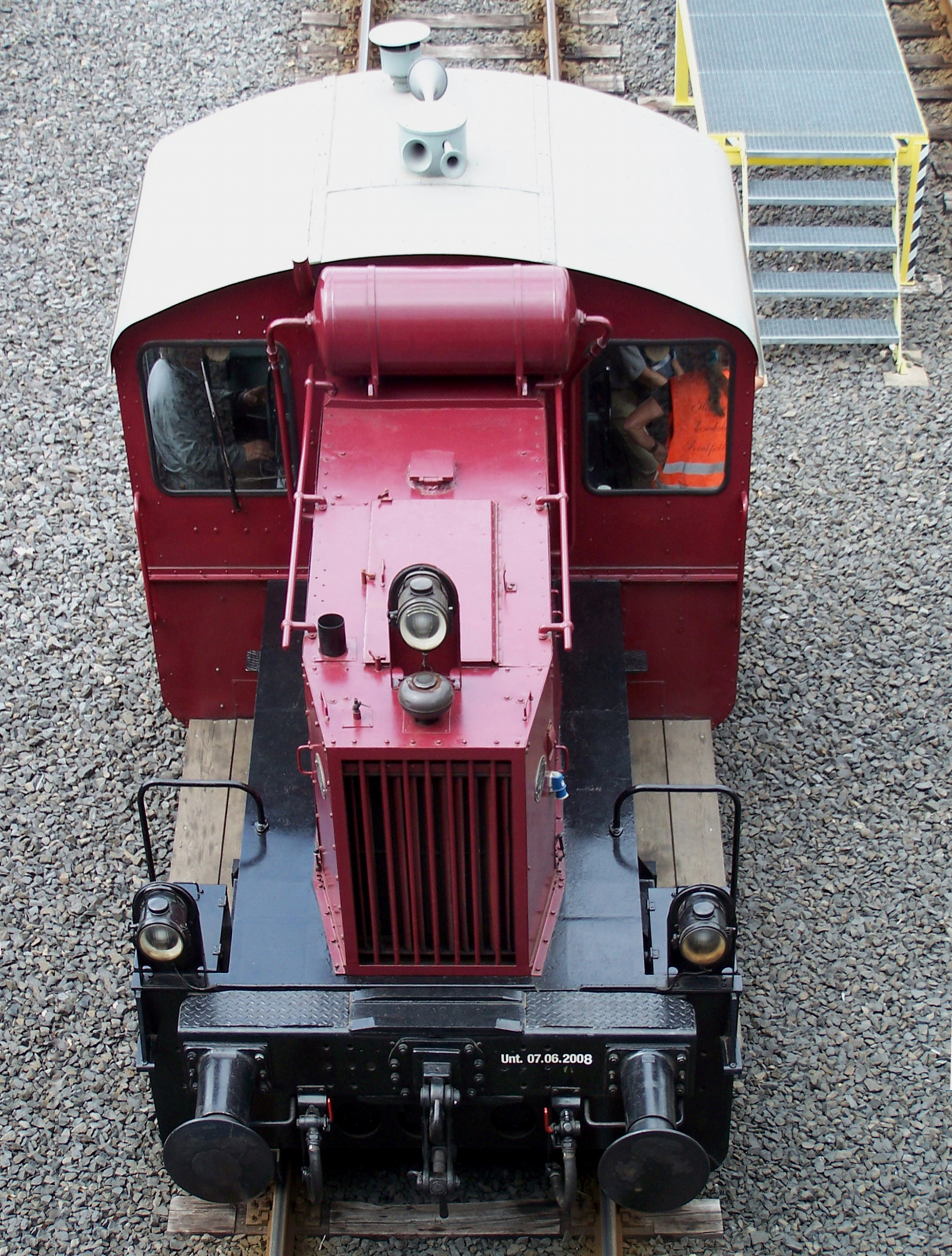 Koe II 323634-6 of the HEF in Königstein im Taunus, seen from front above